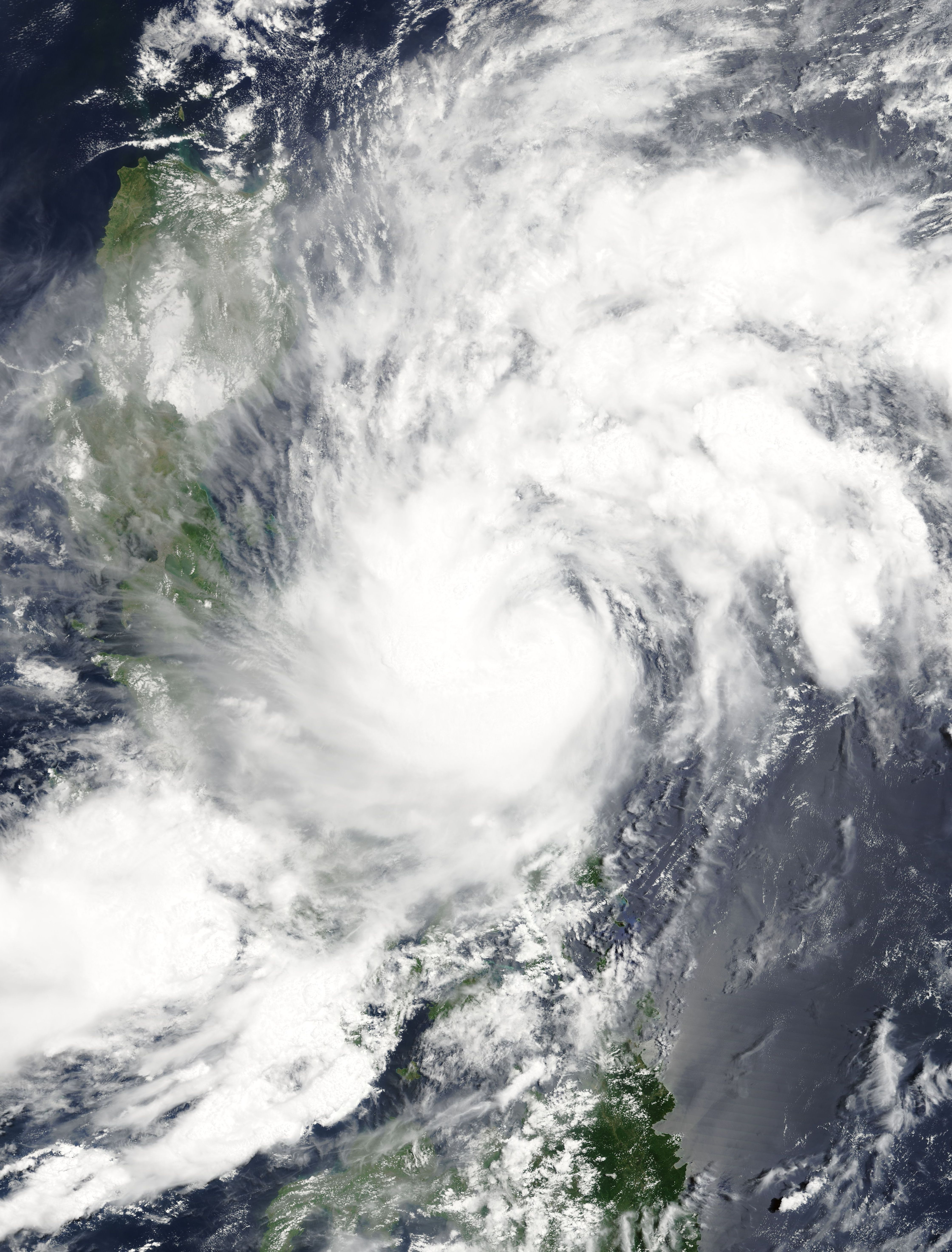 Severe Tropical Storm Kujira (Dante) of the 2009 Pacific typhoon season over the Philippines on May 3.